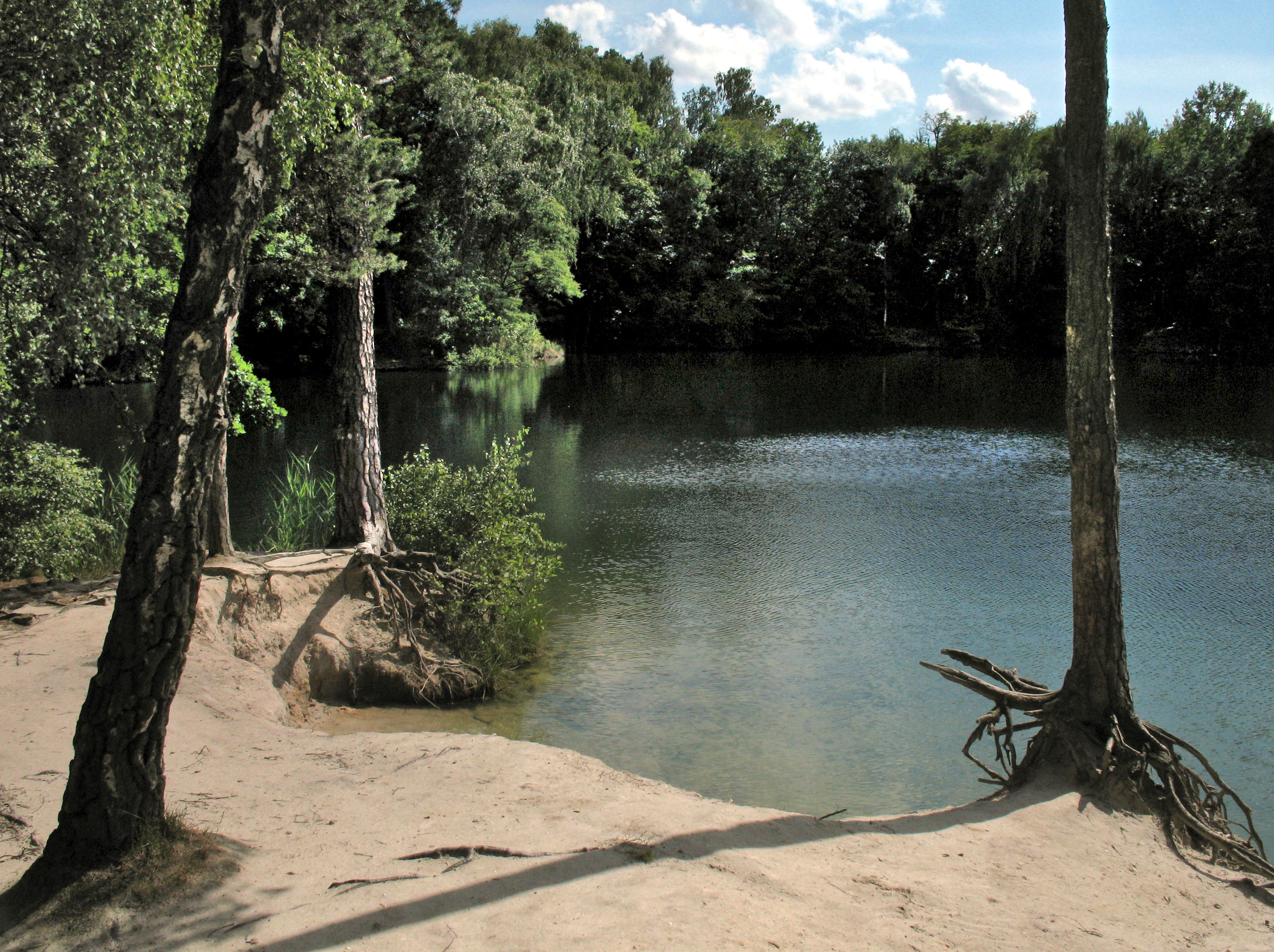 Lake near Bad Schmiedeberg in Saxony-Anhalt, Germany